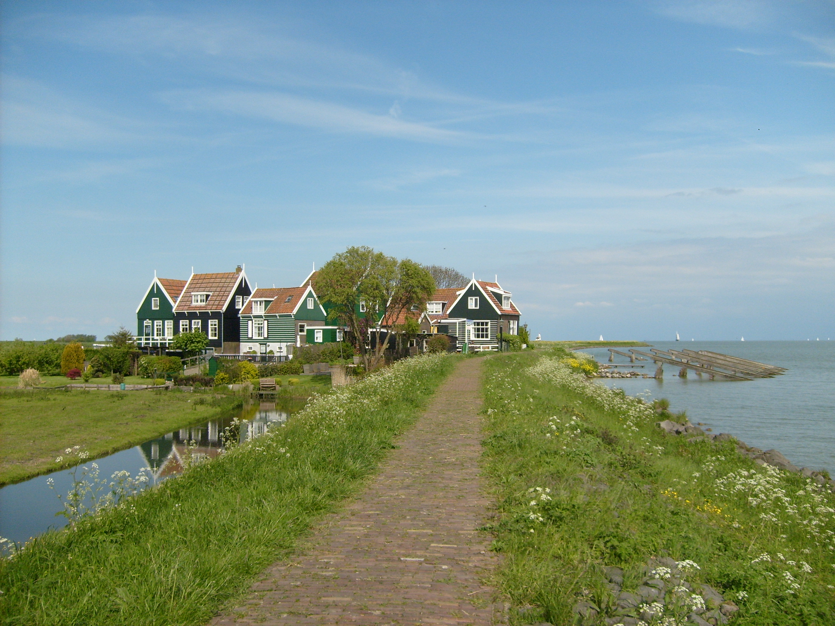 Description Rozewerf Date14 May 2010, 16:01SourceRozewerfAuthorTaco Witte from Holland Licensing